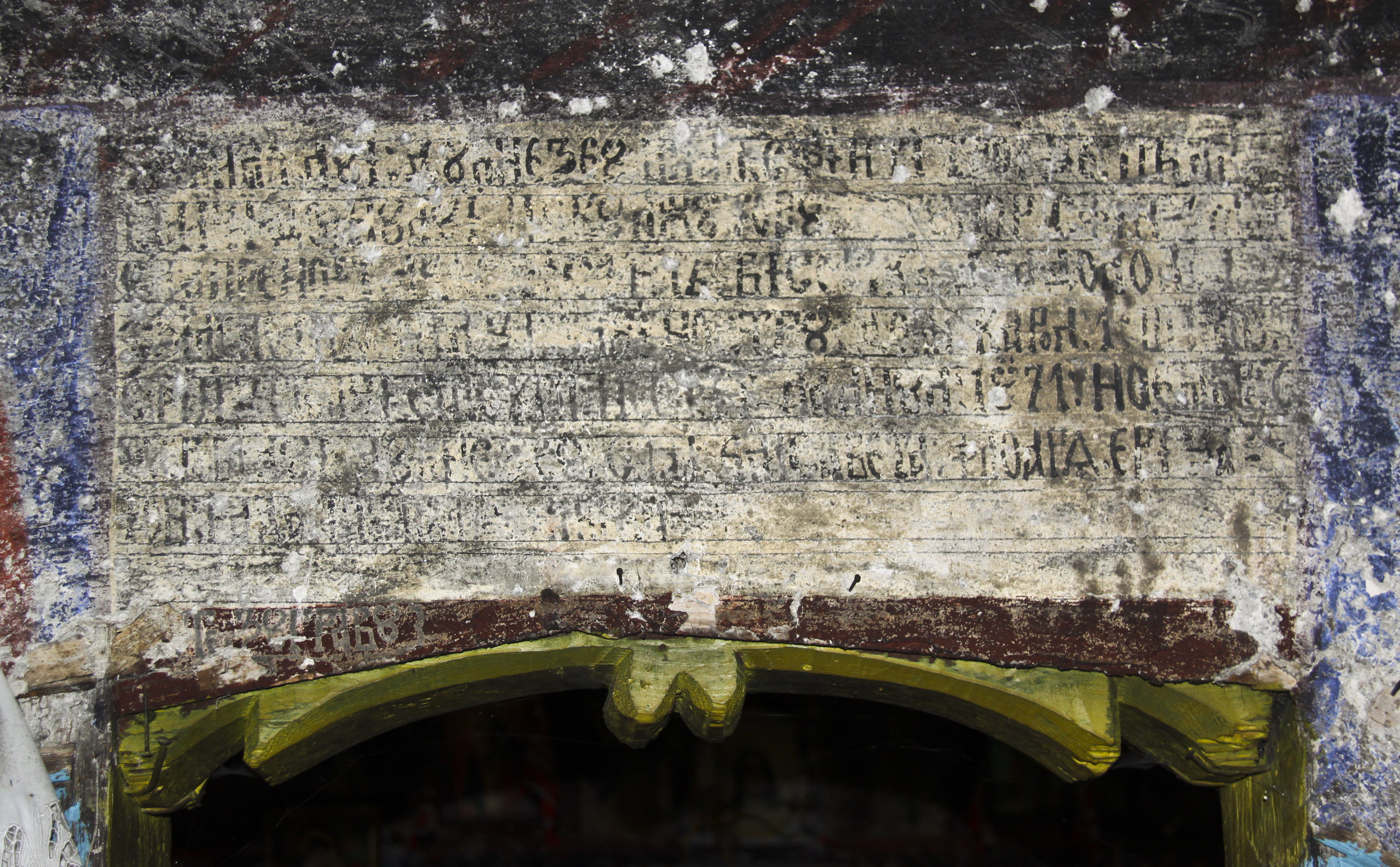 Urecheşti, Argeş county, Romania: the wooden church.